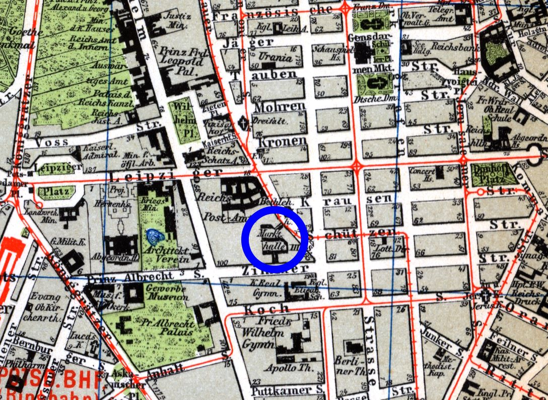 Berlin - Markthalle III, situation plan 1896